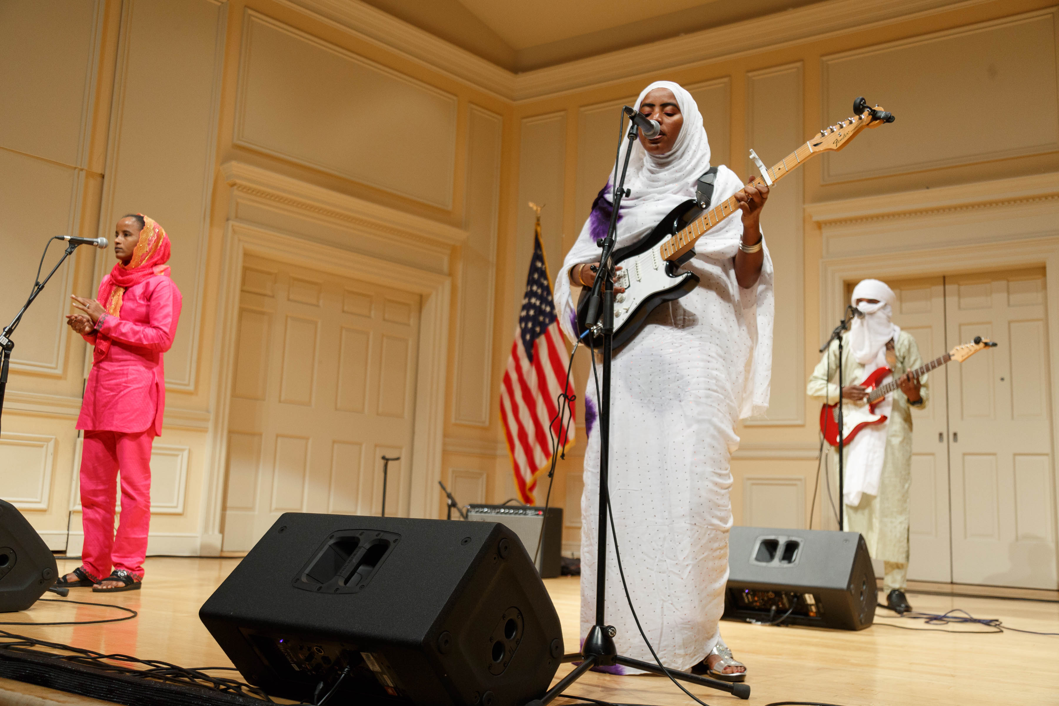 Fatou Seidi Ghali, one of the only Tuareg female guitarists in Niger, leads Les Filles de Illighadad during a Homegrown Concert Series performance, September 19, 2019. Photo by Shawn Miller/Library of Congress. Note: Privacy and publicity rights for individuals depicted may apply.